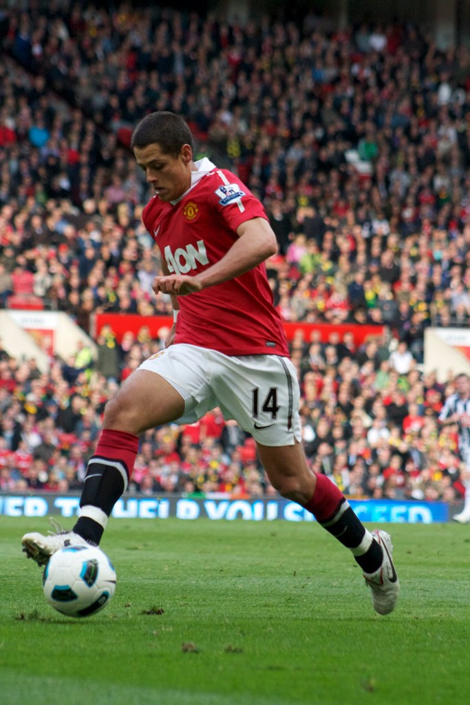 Javier Hernández Balcázar during Premier League match against West Bromwich Albion